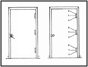 US Army field manual FM 3-06-11, figure 3-26, showing target locations for ballistic breach of the door latch and hinges.